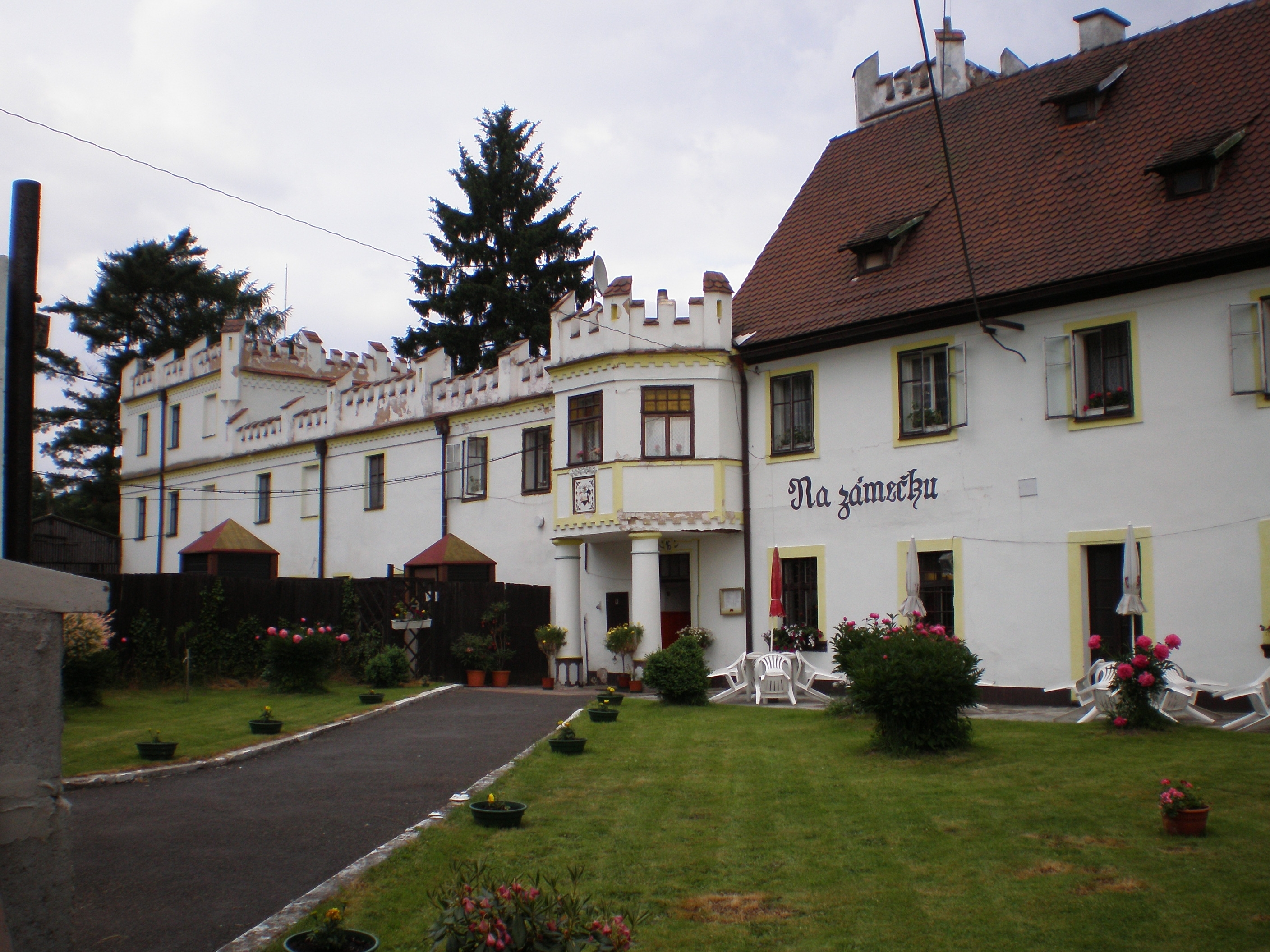 Doubrava (Aš), Czech republic. Castle of Zedtwitz, Restaurant now.